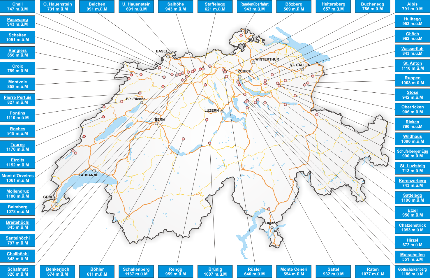 Mountain passes of Switzerland with an elevation below 1200 m